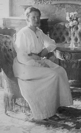 Louise Ebert (1873–1955), wife of German president Friedrich Ebert (1871–1925)